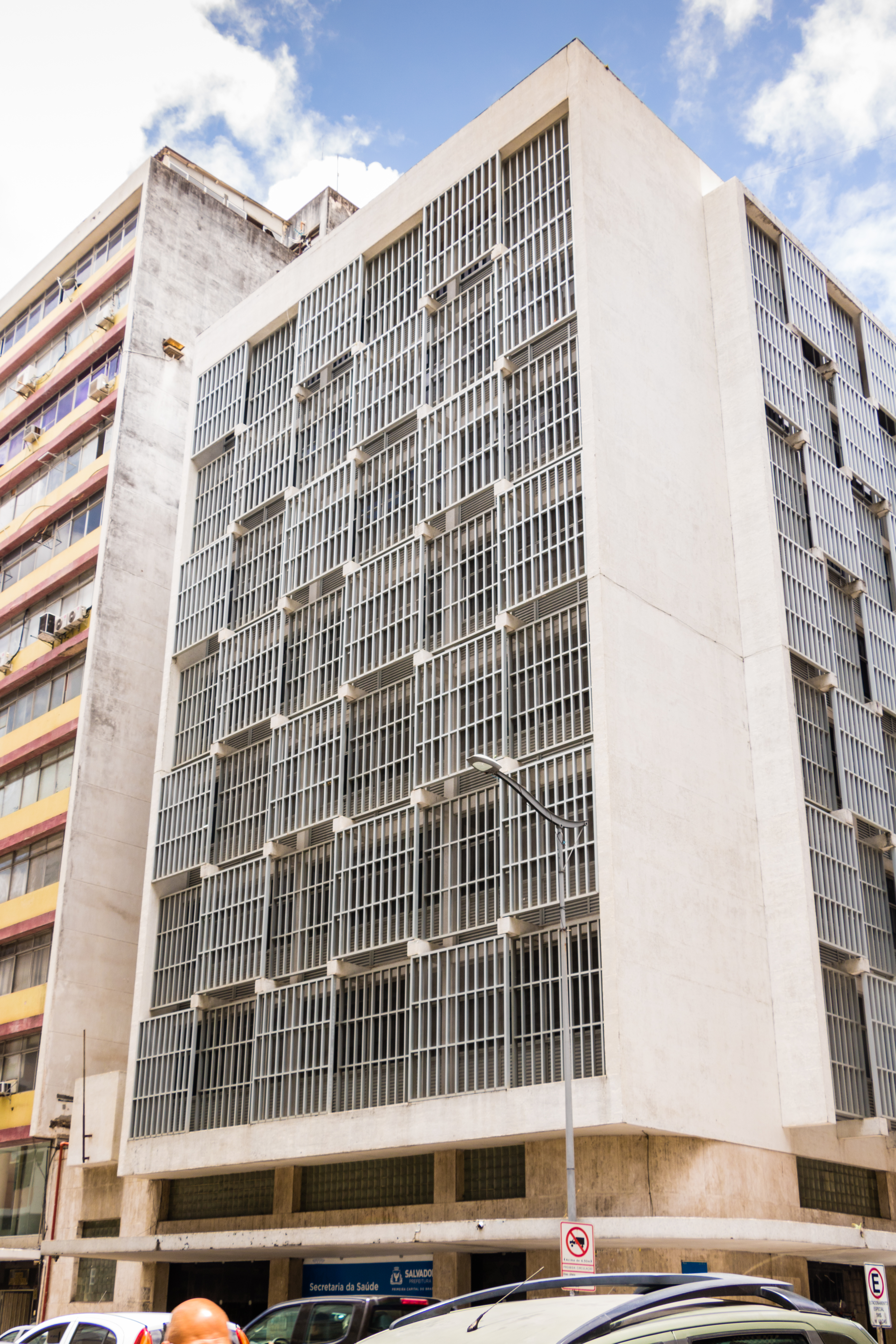 Edifício Caramuru, Salvador, Bahia, Brazil, 1951. Architect: Paulo Antunes Ribeiro (1905–1973), originally built for Prudência Capitalização.